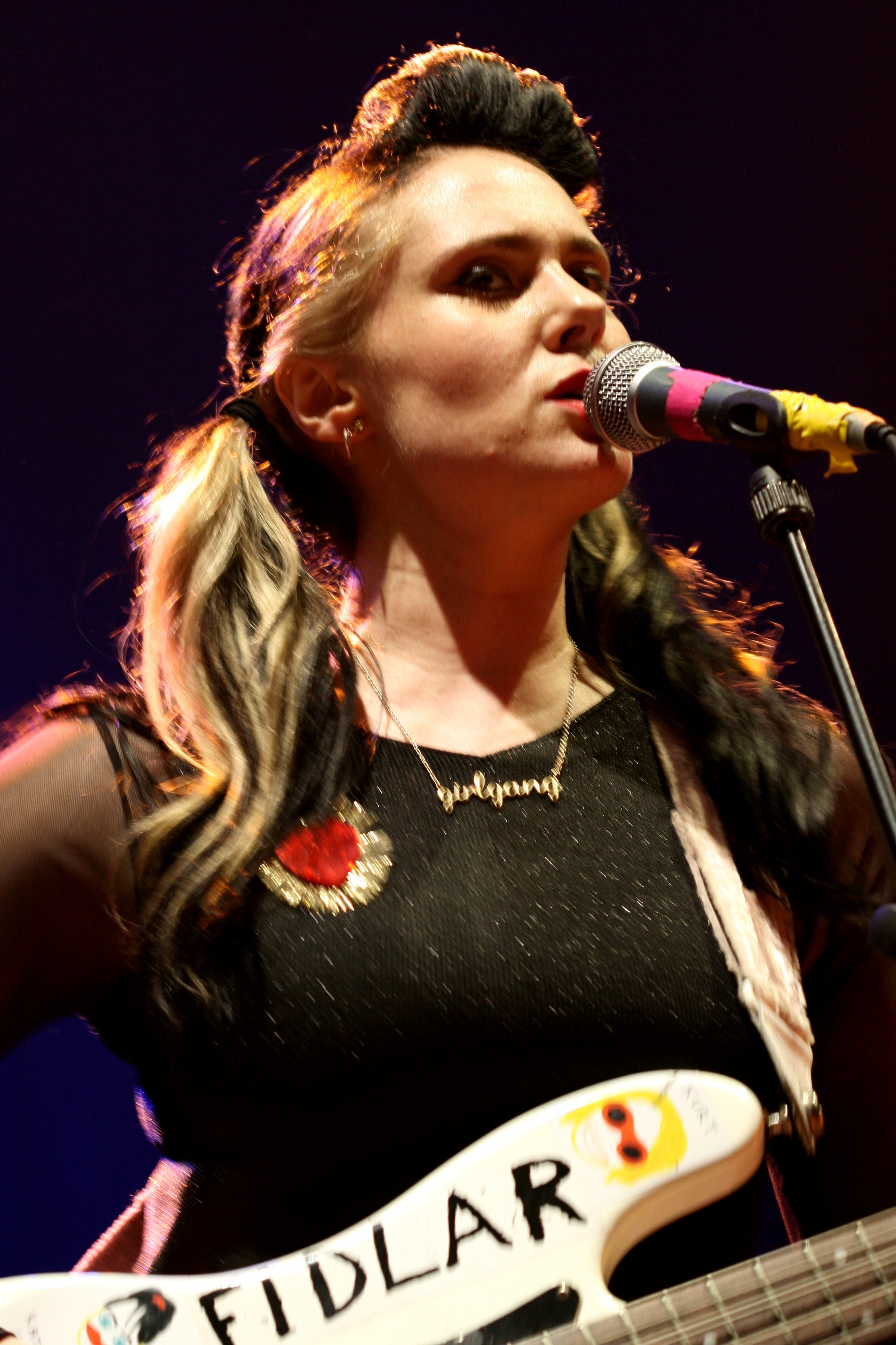 Kate Nash stands on the Clubstage of Rock im Park-Festival 2013. Festivalsommer This photo was created with the support of donations to Wikimedia Deutschland in the context of the CPB project "Festival Summer".